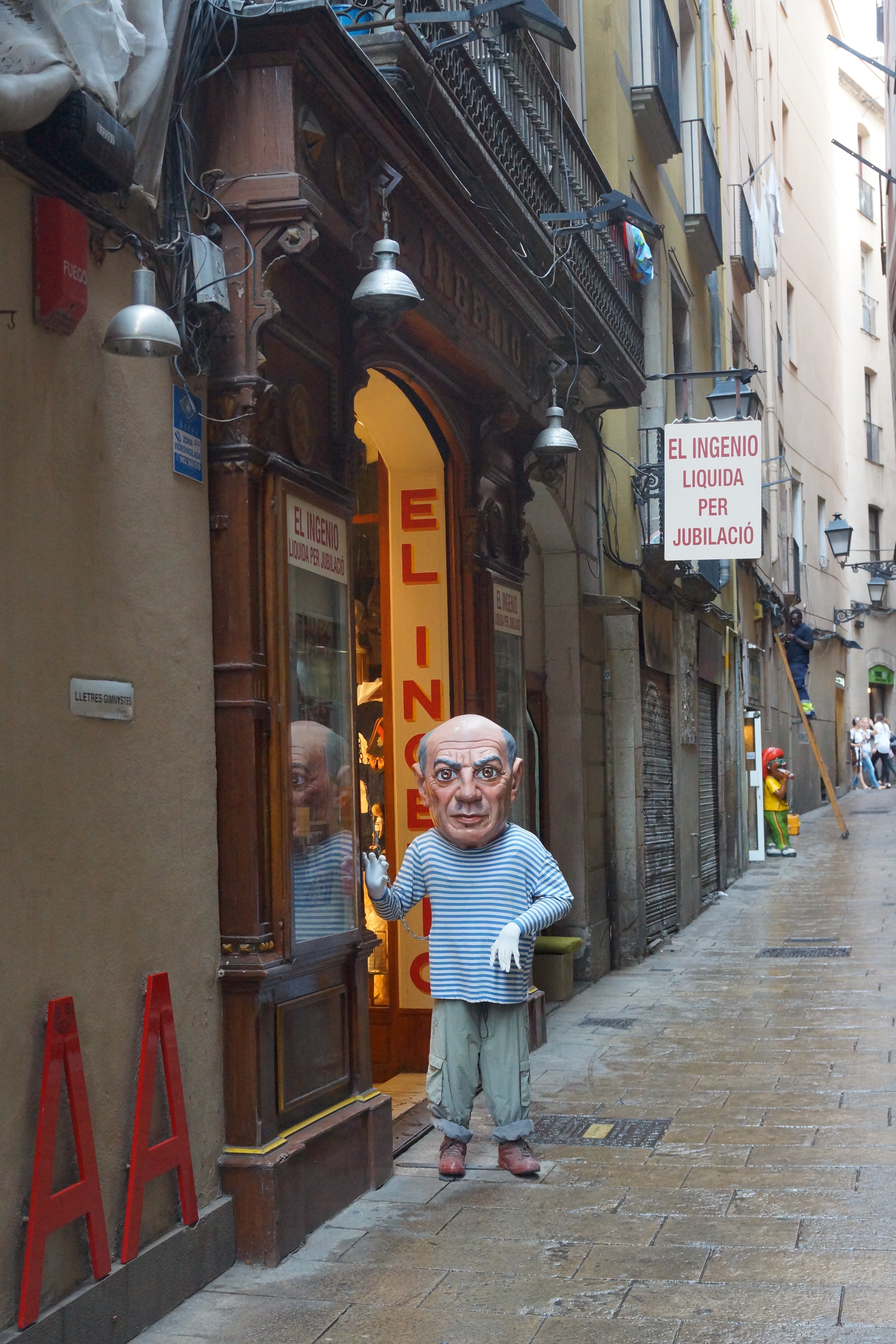 Barcelona, Catalonia: Toy and Mask Shop El Ingenio